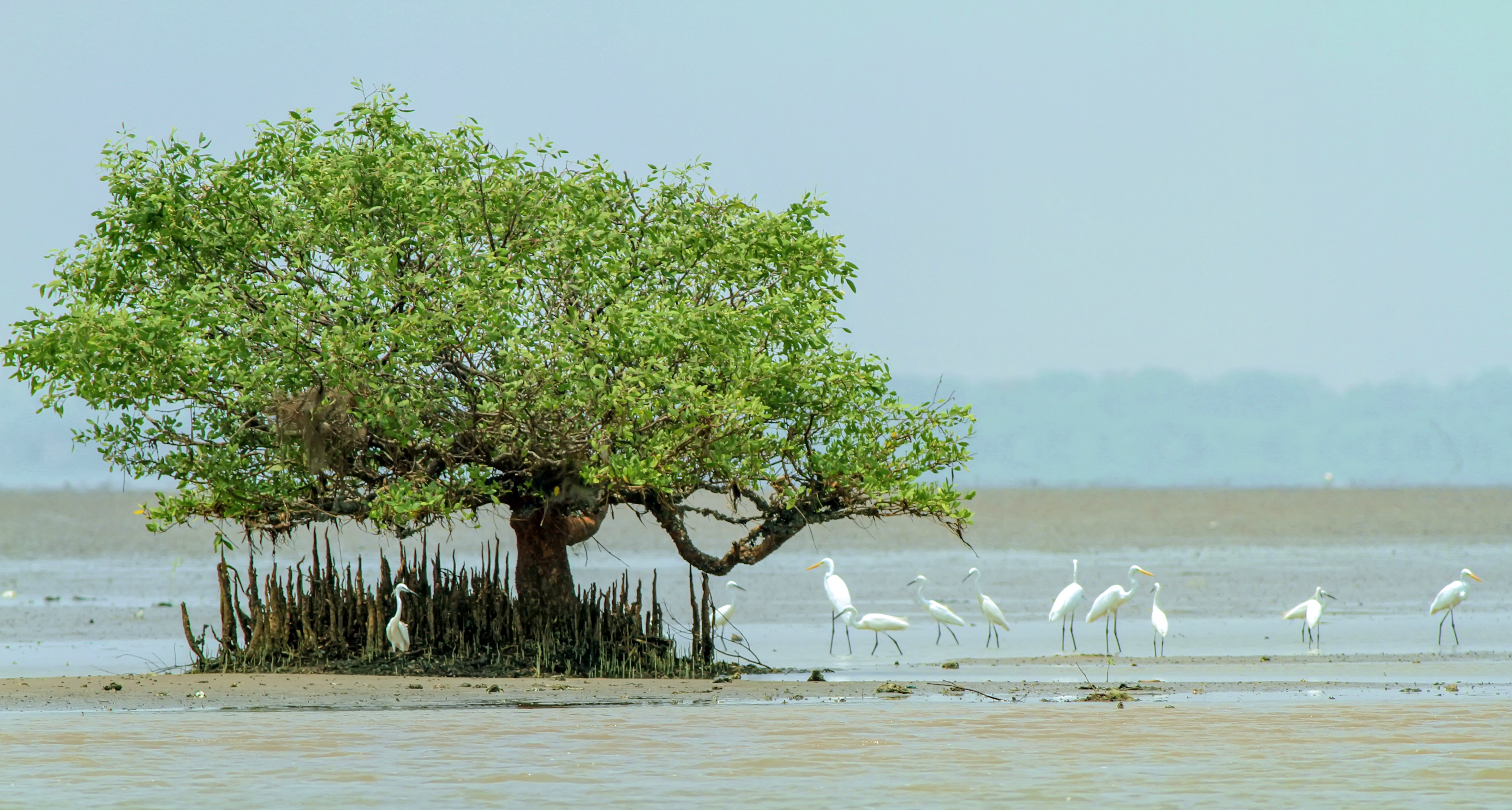 Birds feeding on mudflats during low tide at Coringa Wildlife Sanctuary